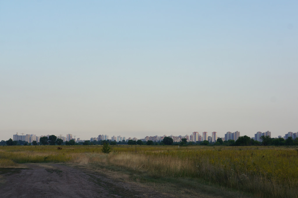 Troješčyna neighbourhood in Kyiv, Ukraine